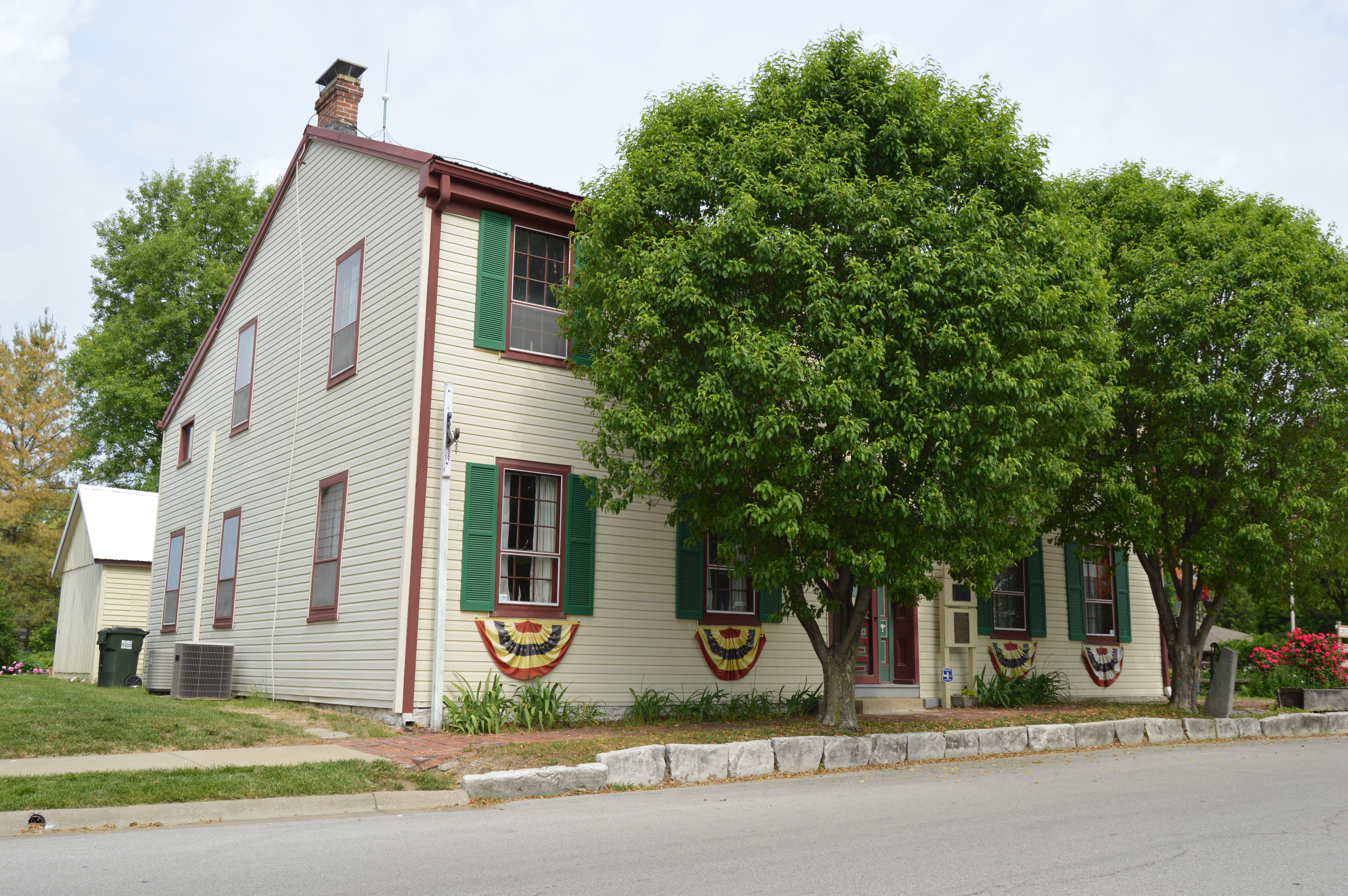 Front and southern side of the Peterstown House, located at 275 N. Main Street in Waterloo, Illinois, United States. Built in 1830, it is listed on the National Register of Historic Places.